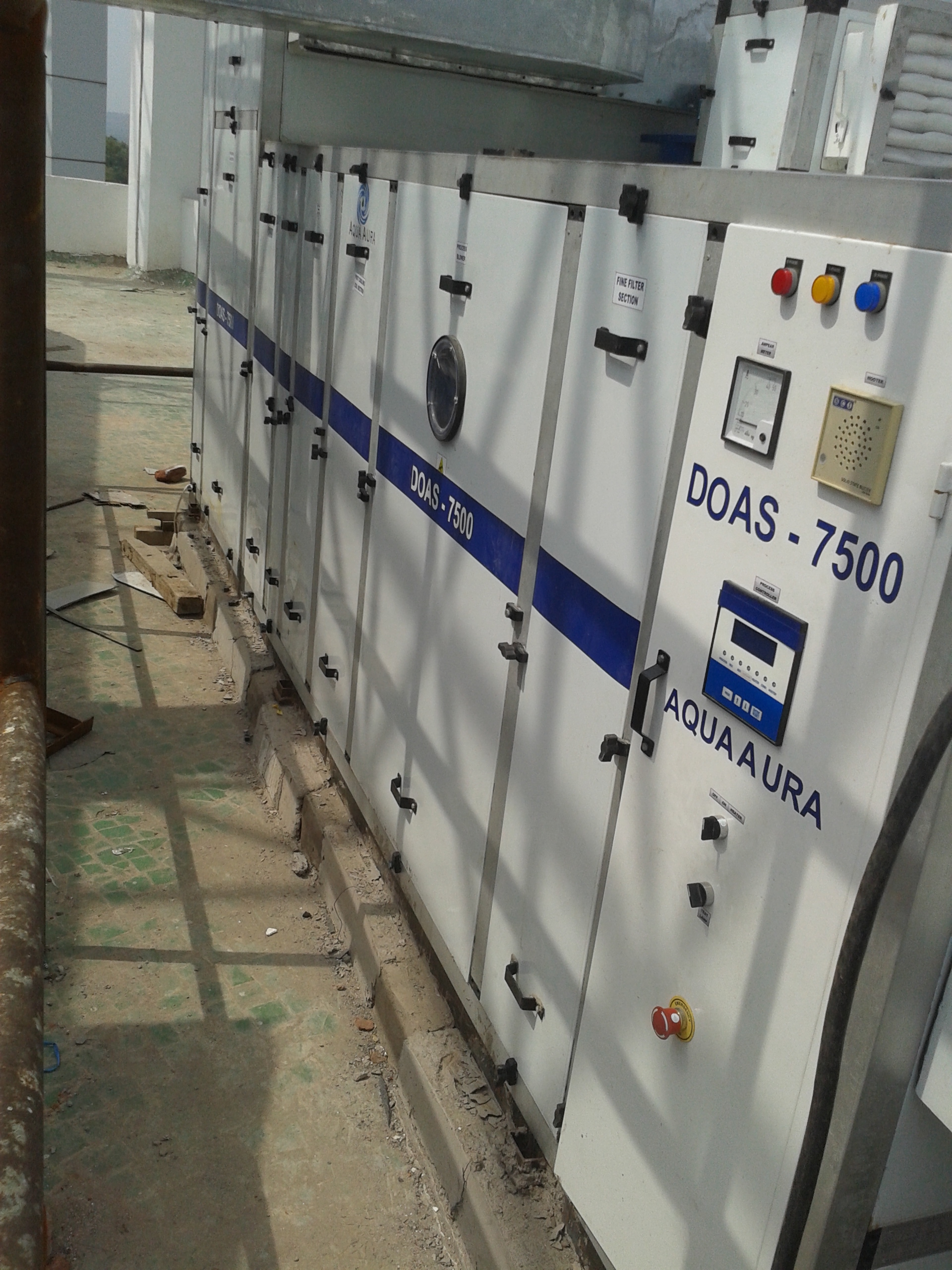 Installed for Fresh Air Dehumidification with Energy Recover System DOAS